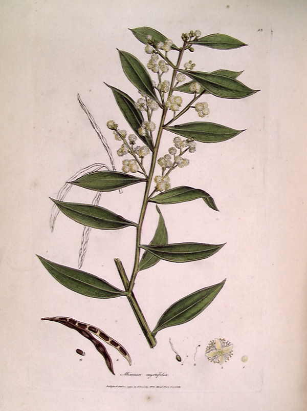 This is an image of a print of a hand coloured engraving by James Sowerby (1757-1822), based on drawing nominally by John White but probably by the convict artist Thomas Watling. It appeared as Tab. XV in James Edward Smith's 1793 A Specimen of the Botany of New Holland. The plant depicted was then known as Mimosa myrtifolia, but is now known as Acacia myrtifolia. The accompanying text explains the figure thus: 1. A flower in front. 2. The same seen behind, magnified. 3. A stamen. 4. Germen, natural size and magnified. 5. Pod open, natural size. 6. A seed.